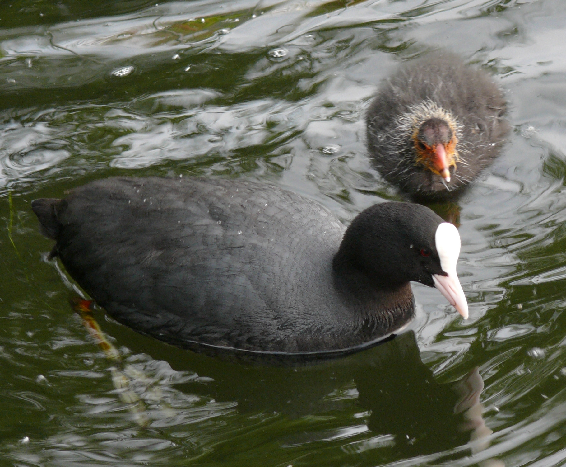 Adult Eurasian coot (Fulica atra), accompanied by chick.